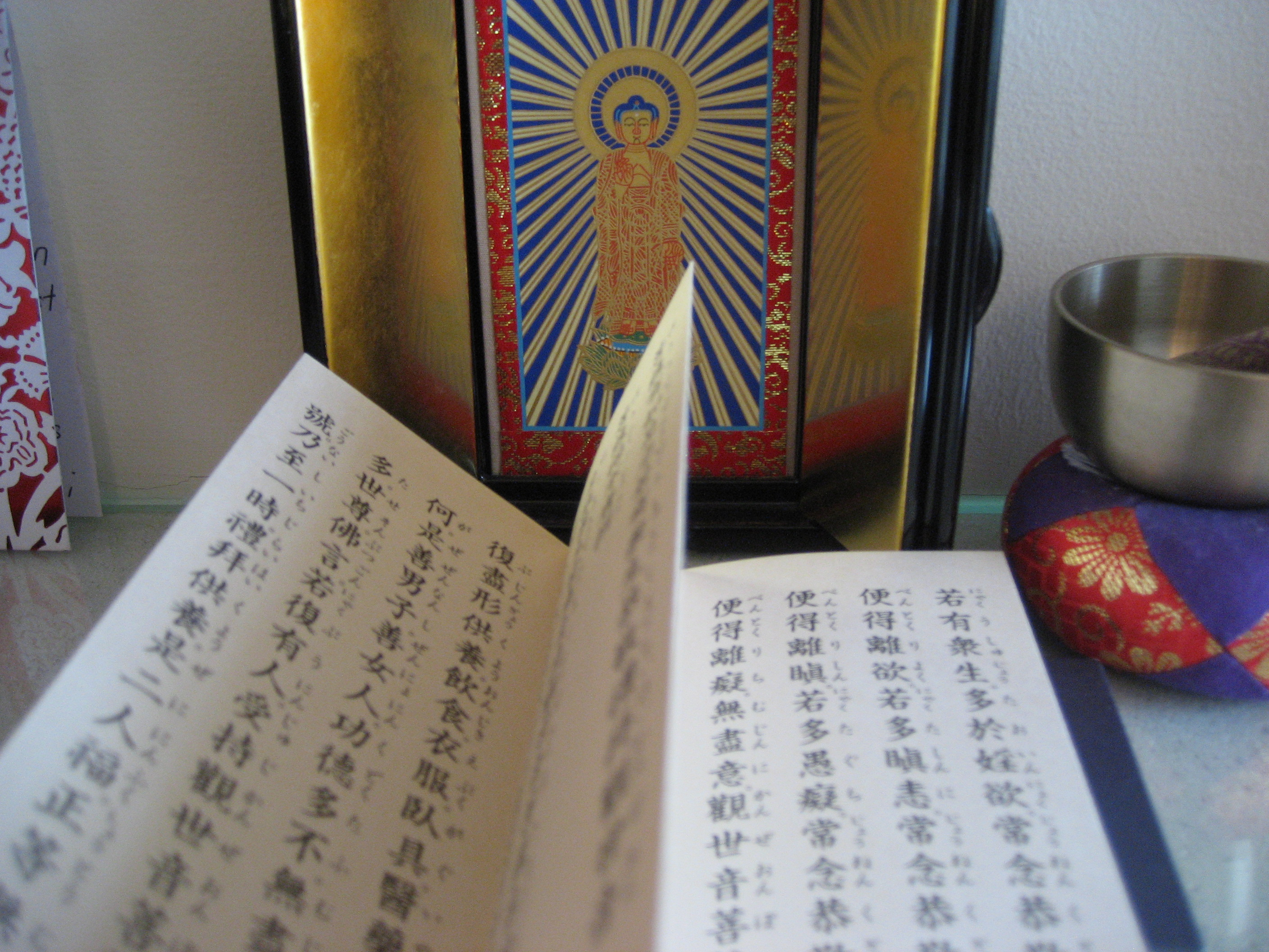 Japanese Buddhist altar with image of Amitabha Buddha and a copy of the Lotus Sutra open to Chapter 25: The Universal Gateway of Avalokitesvara Bodhisattva.